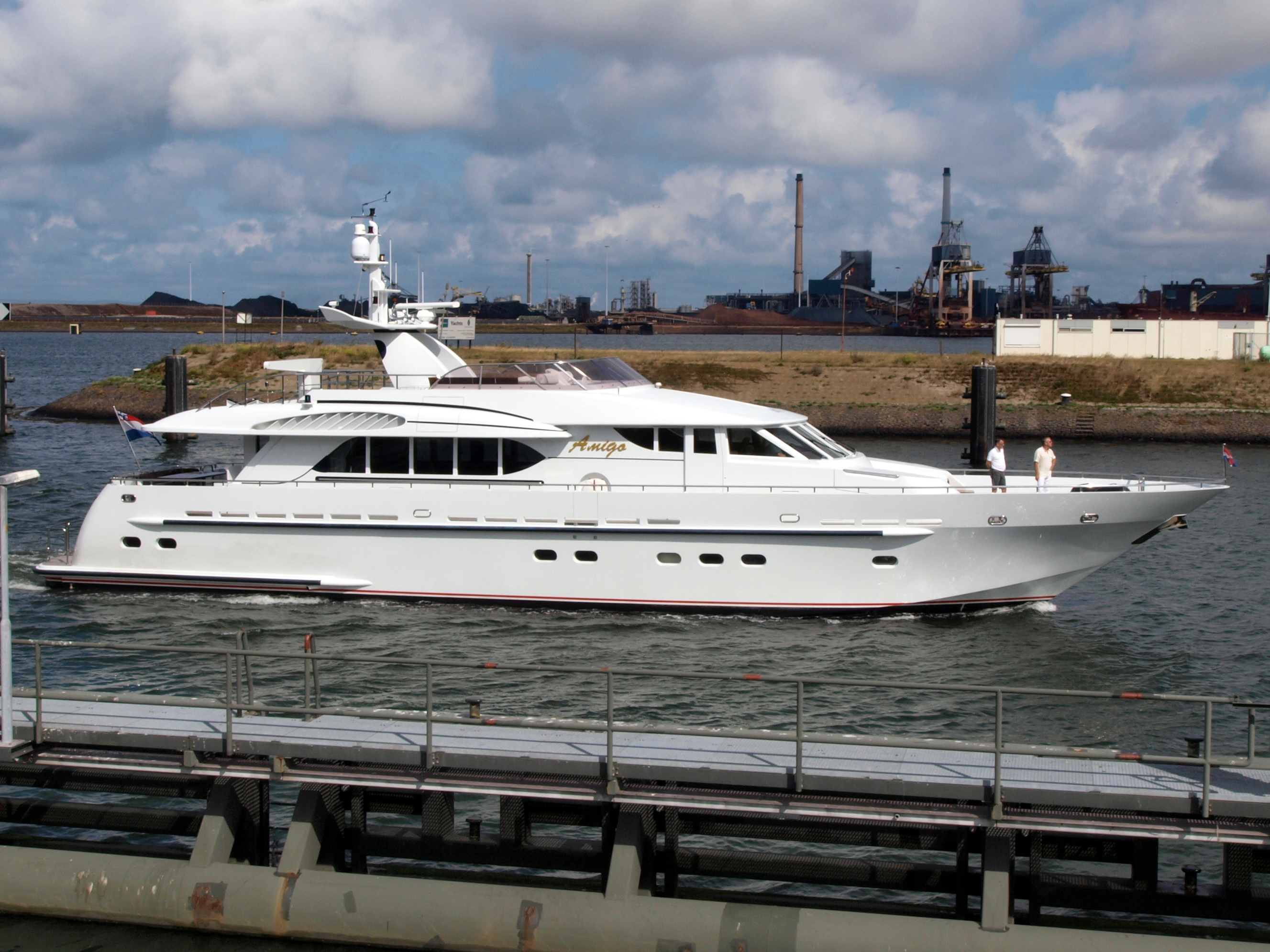 Amigo at IJmuiden. The motor yacht was built 2003 by Heesen.